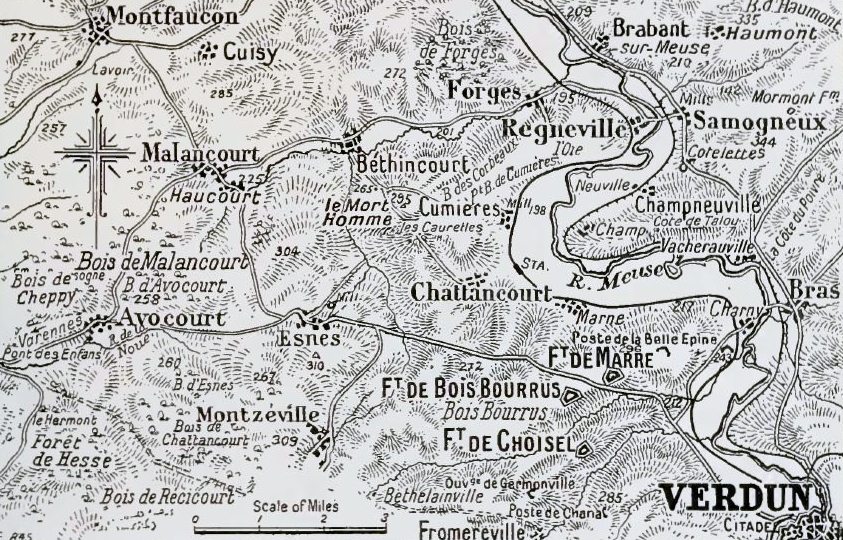 Diagram of the west bank of the Meuse, Verdun, 1916